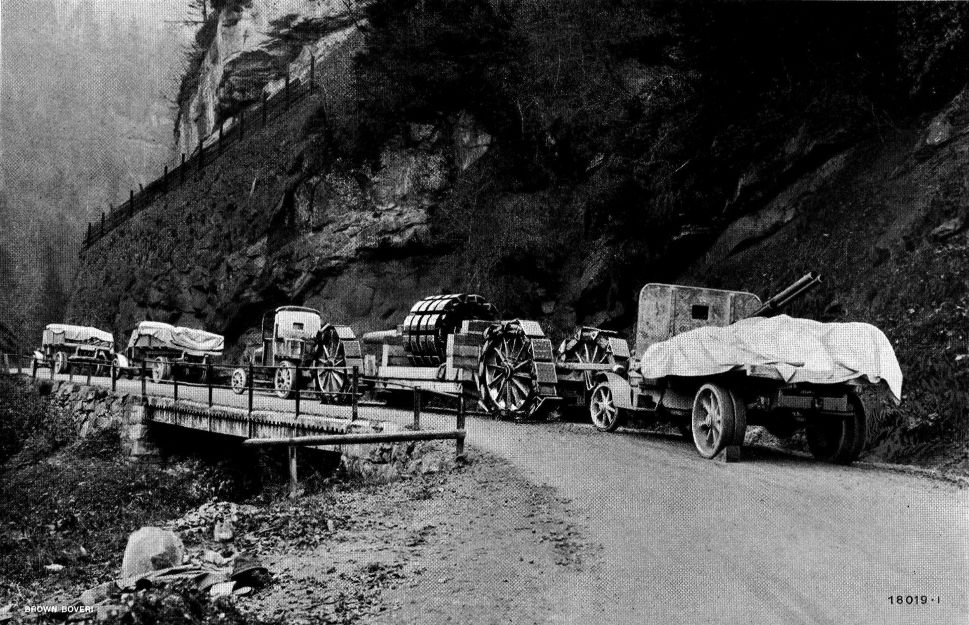 Machinery for the Wäggital power station, Switzerland. Transport of a rotor weighing 25 tons for one of the four three-phase alternators each 16.000 kVA, 8800 V, 0.7 power factor, 50 cycles, 500 rpm